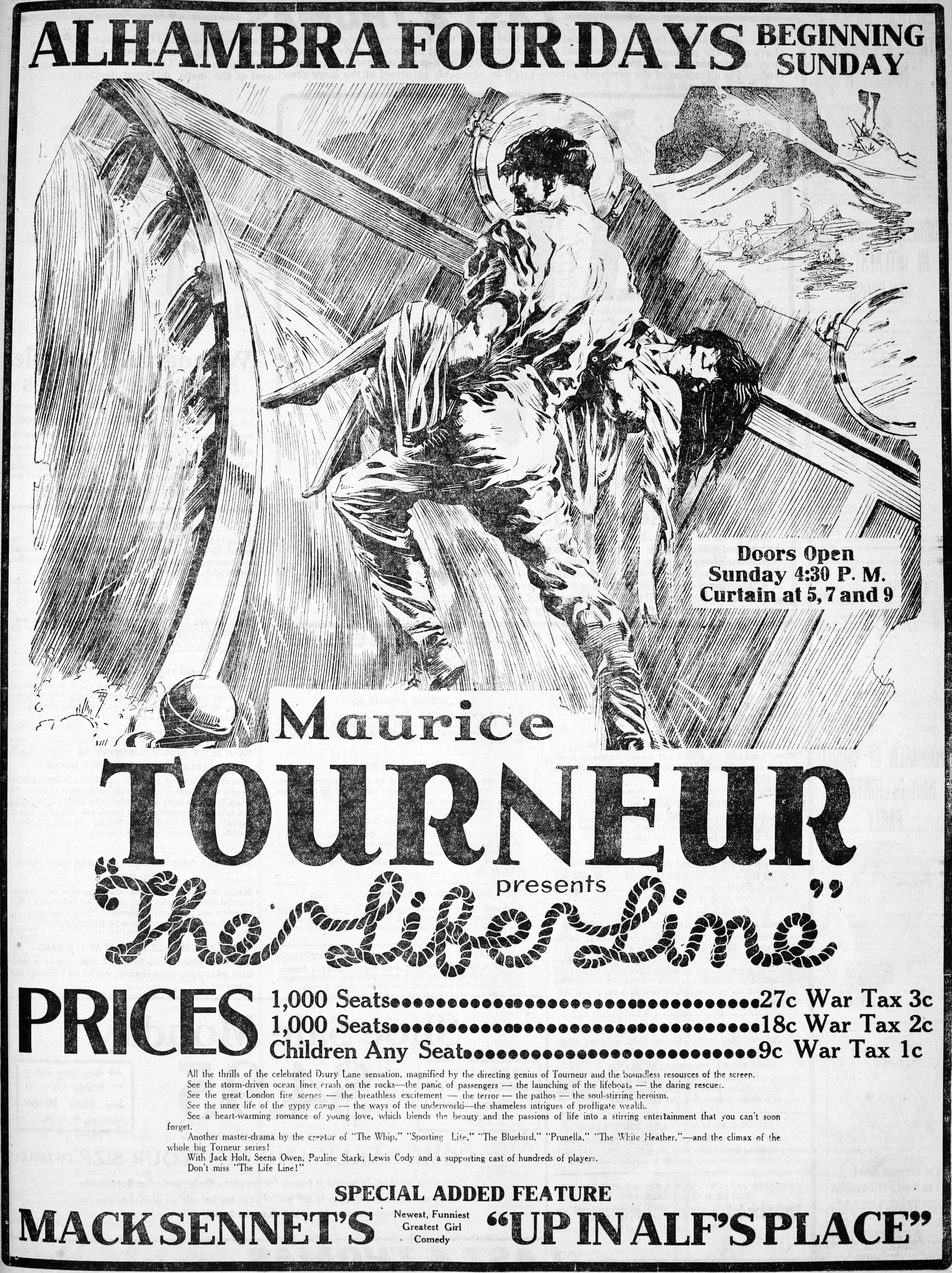 The Life Line is a 1919 American silent drama film directed by Maurice Tourneur and starring Jack Holt, Wallace Beery and Lew Cody. This is a newspaper advertisement.